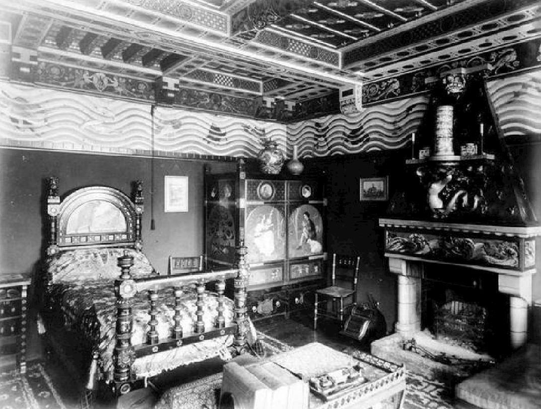 The Bedroom of William Burges, The Tower House, Kensington.